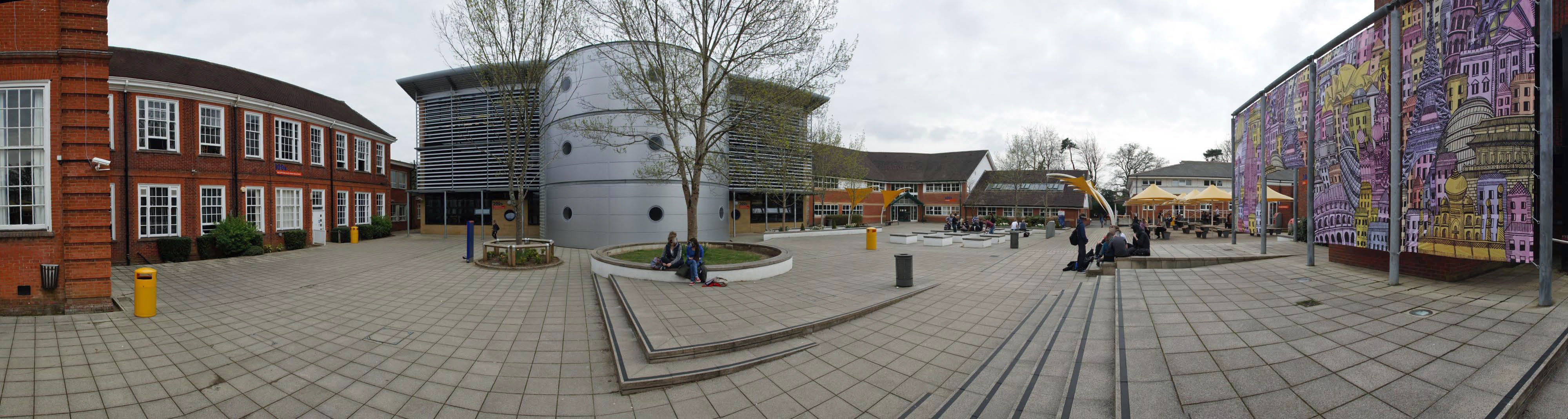 A panoramic, showing the new Piazza in early Spring 2014.